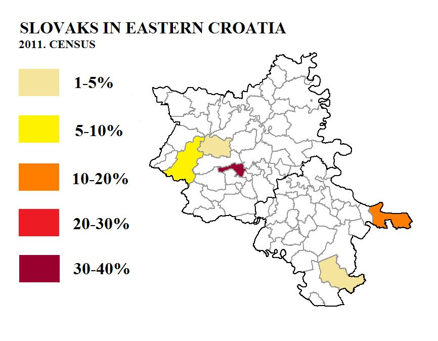 Slovaks of eastern Croatia 2011 census